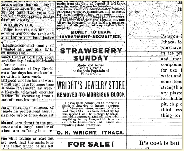 Source: Ithaca Daily Journal, May 28, 1892 Ice cream sundae from the shop owned by Chester Platt